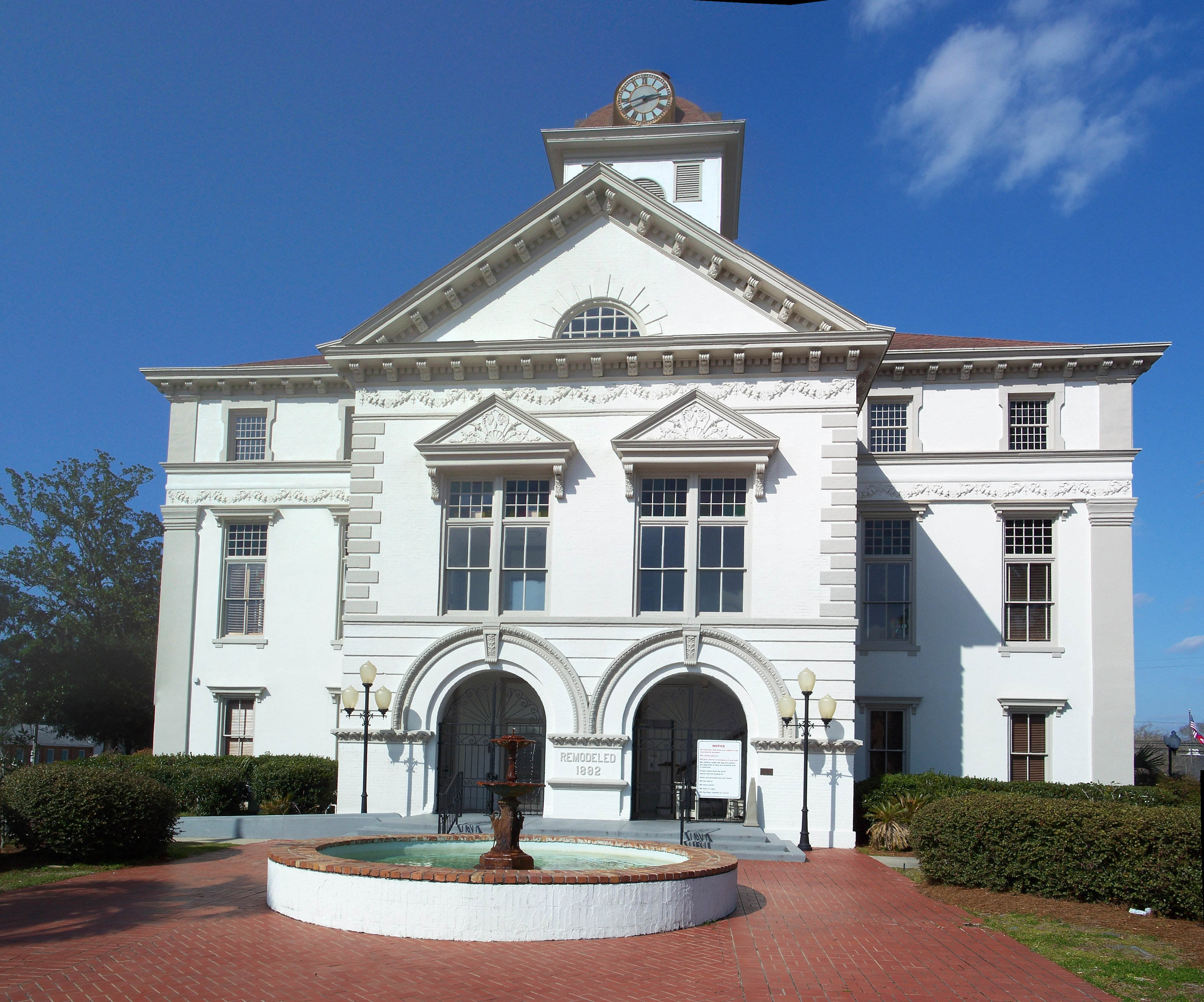 Quitman, Georgia: Memorial at the Brooks County Courthouse